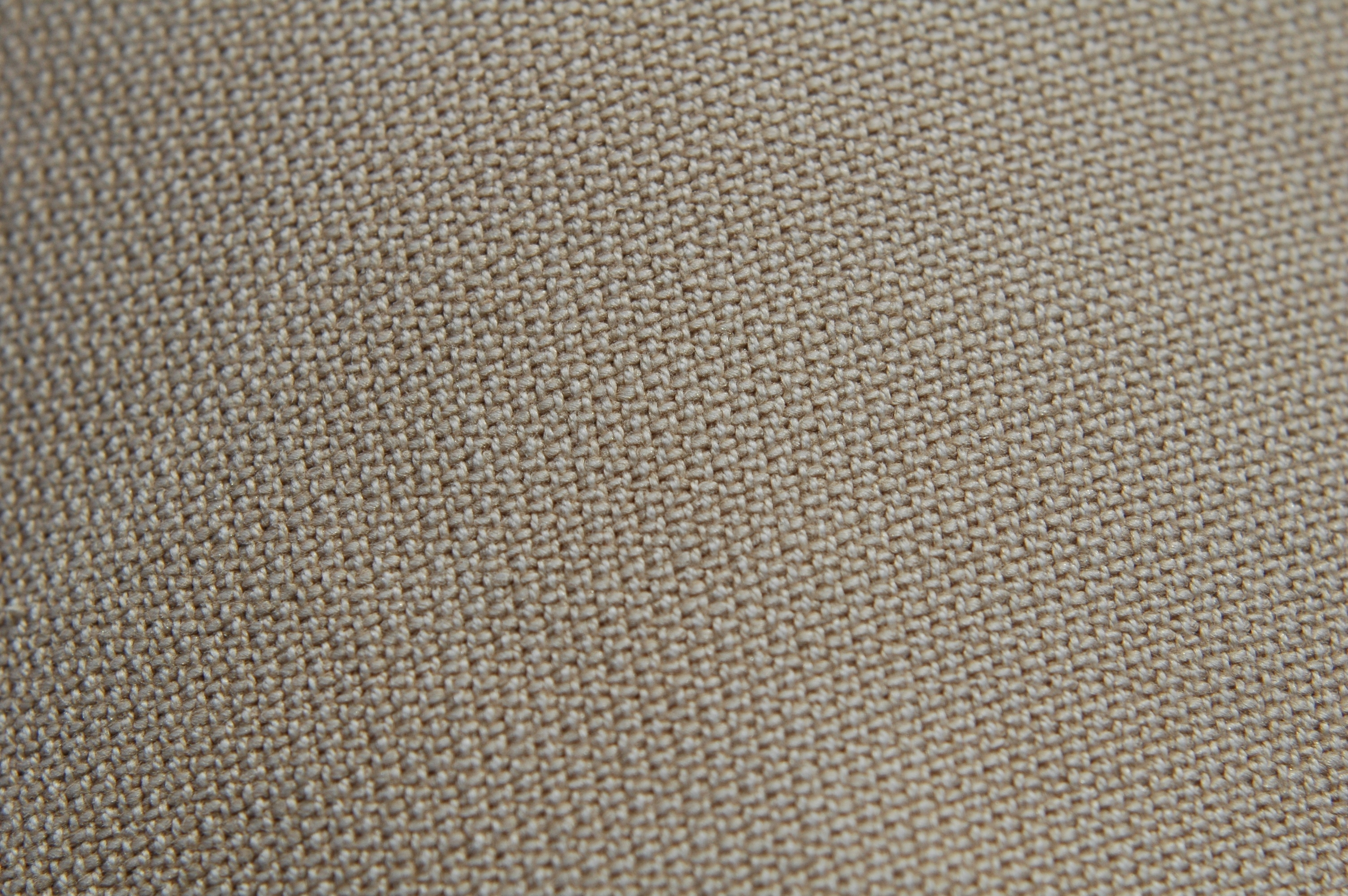 Moleskin